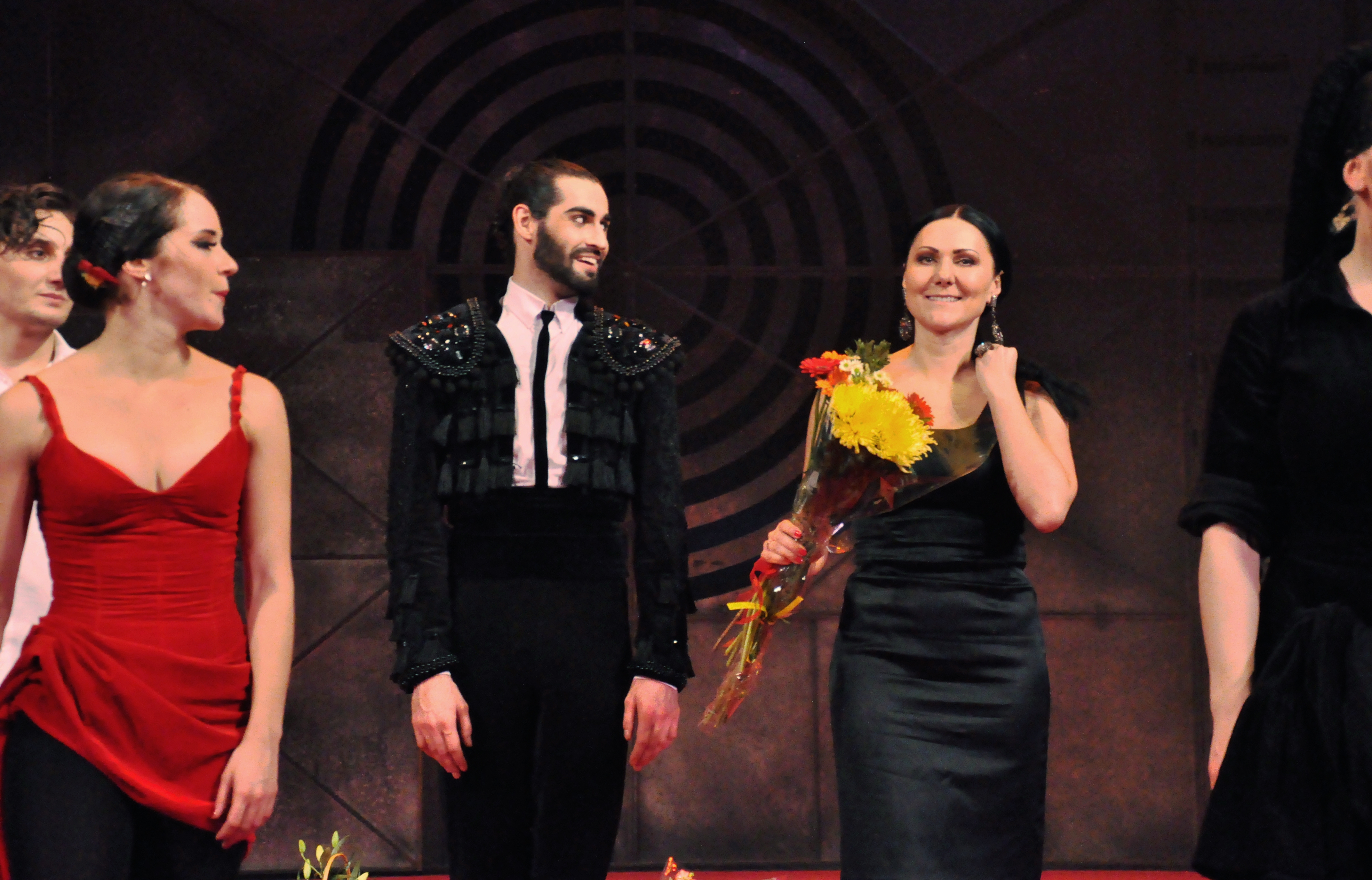 Moscow premiere of "Carmen", November 27 2012